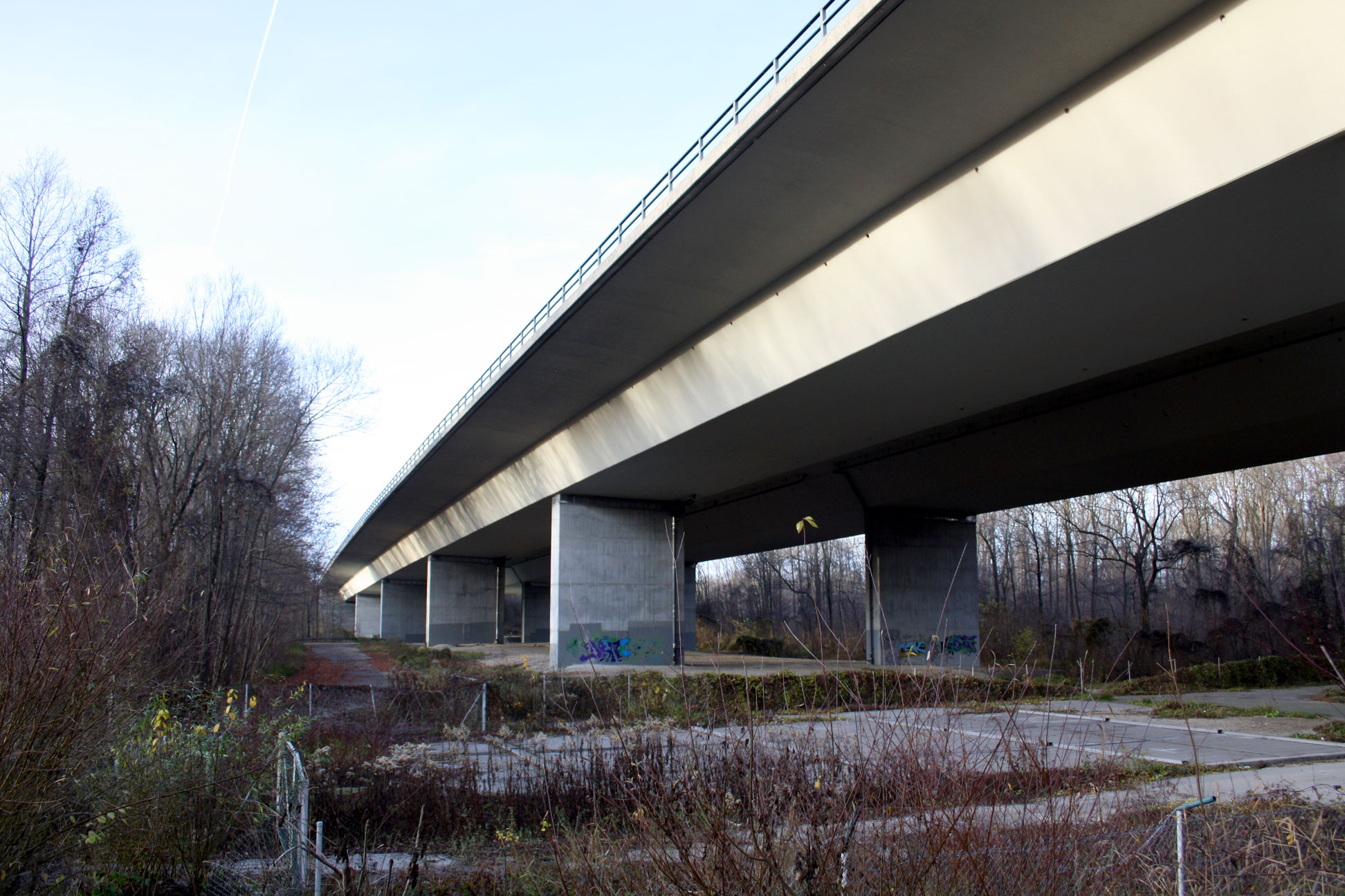 Isarbrücke Unterföhring leading the motorway A99 over the river Isar at the nort end of Munich